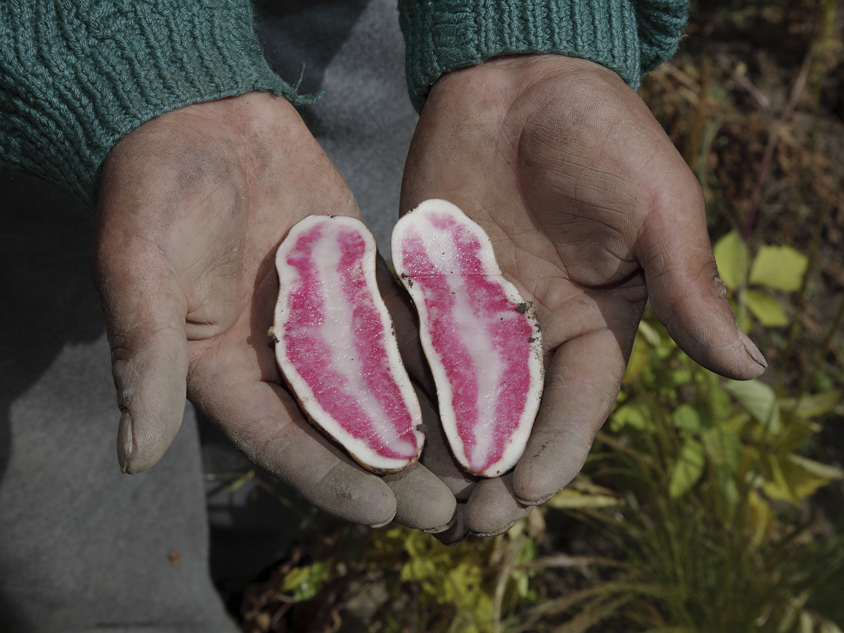 Andean potatoes, var. 'corte'